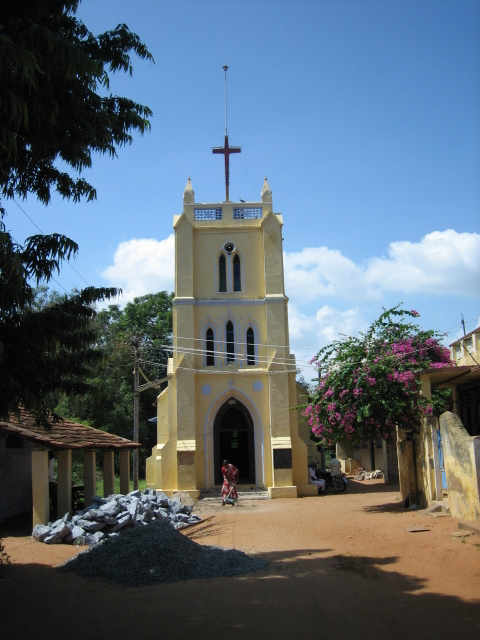 Ravikumar Stephen J